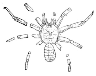 Illustration of the fossil arachnid Arthrolycosa antiqua.